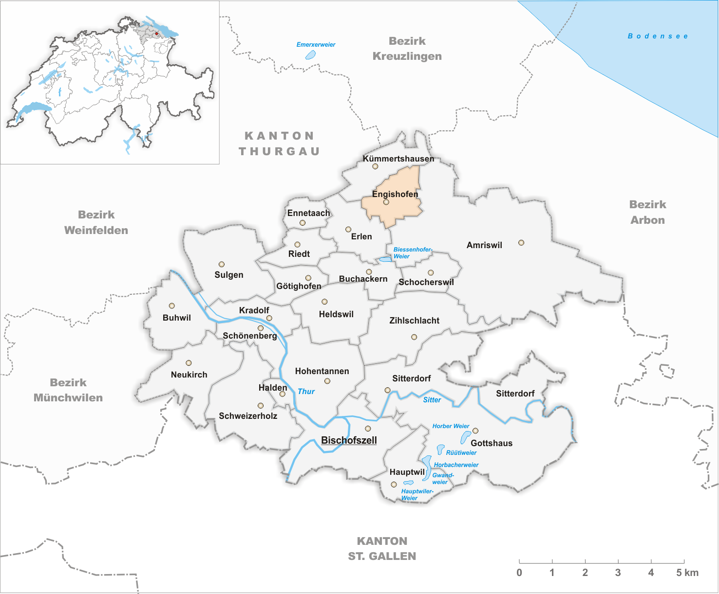 Municipality Engishofen